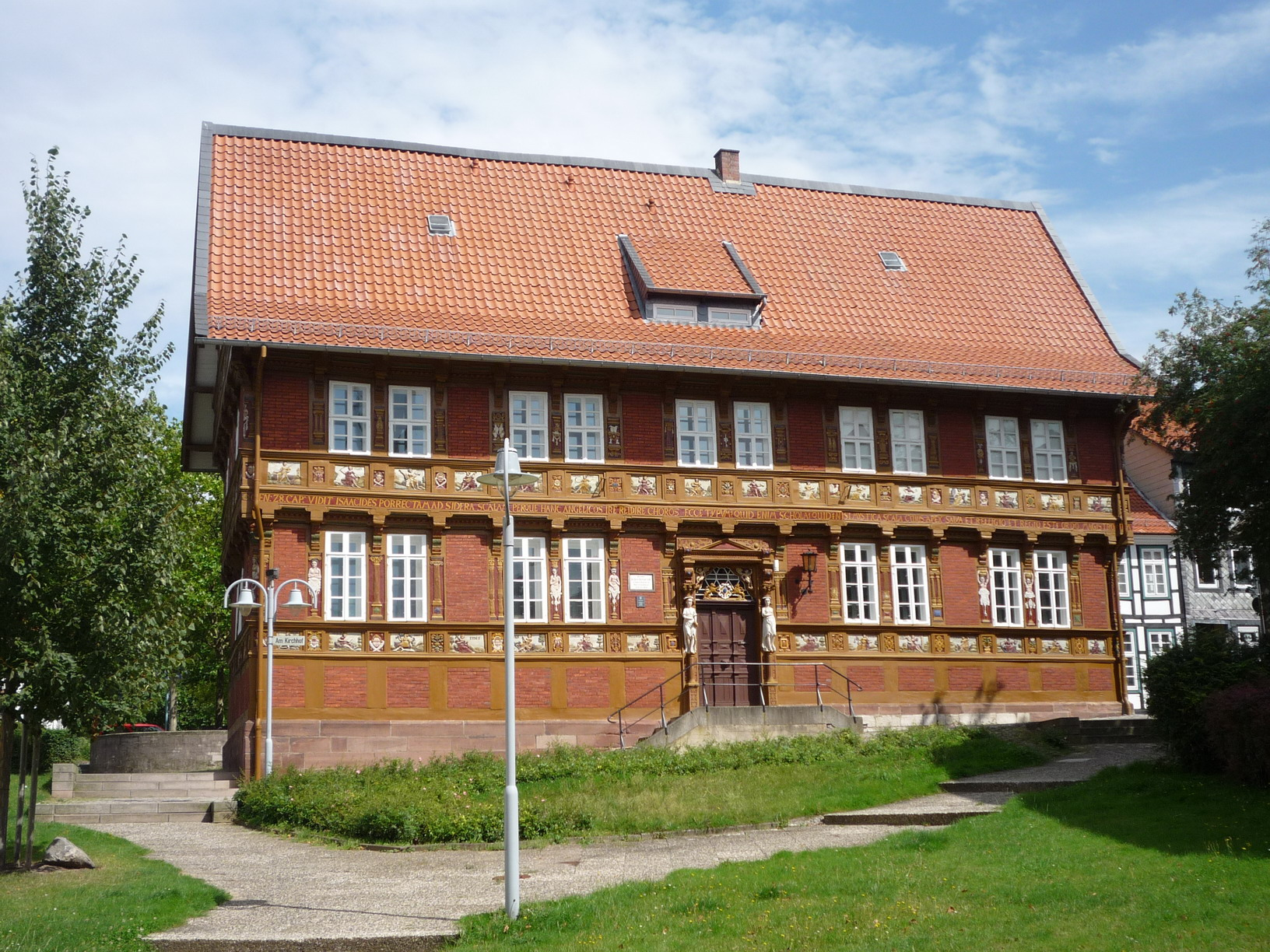 Old Latin School Alfeld in Lower Saxony, Germany - today museum